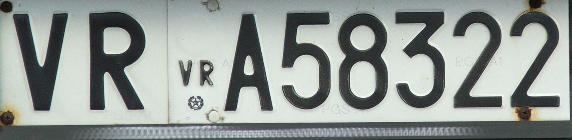 Vehicle licence plate from Italy as seen in 2007. "VR" stands for Verona province.